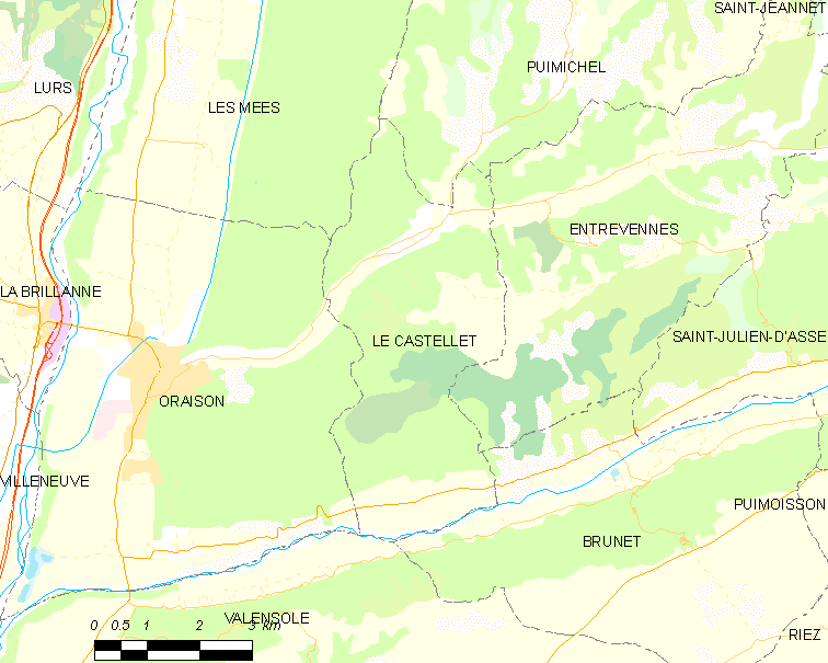 Map commune FR insee code 04041.png Légende